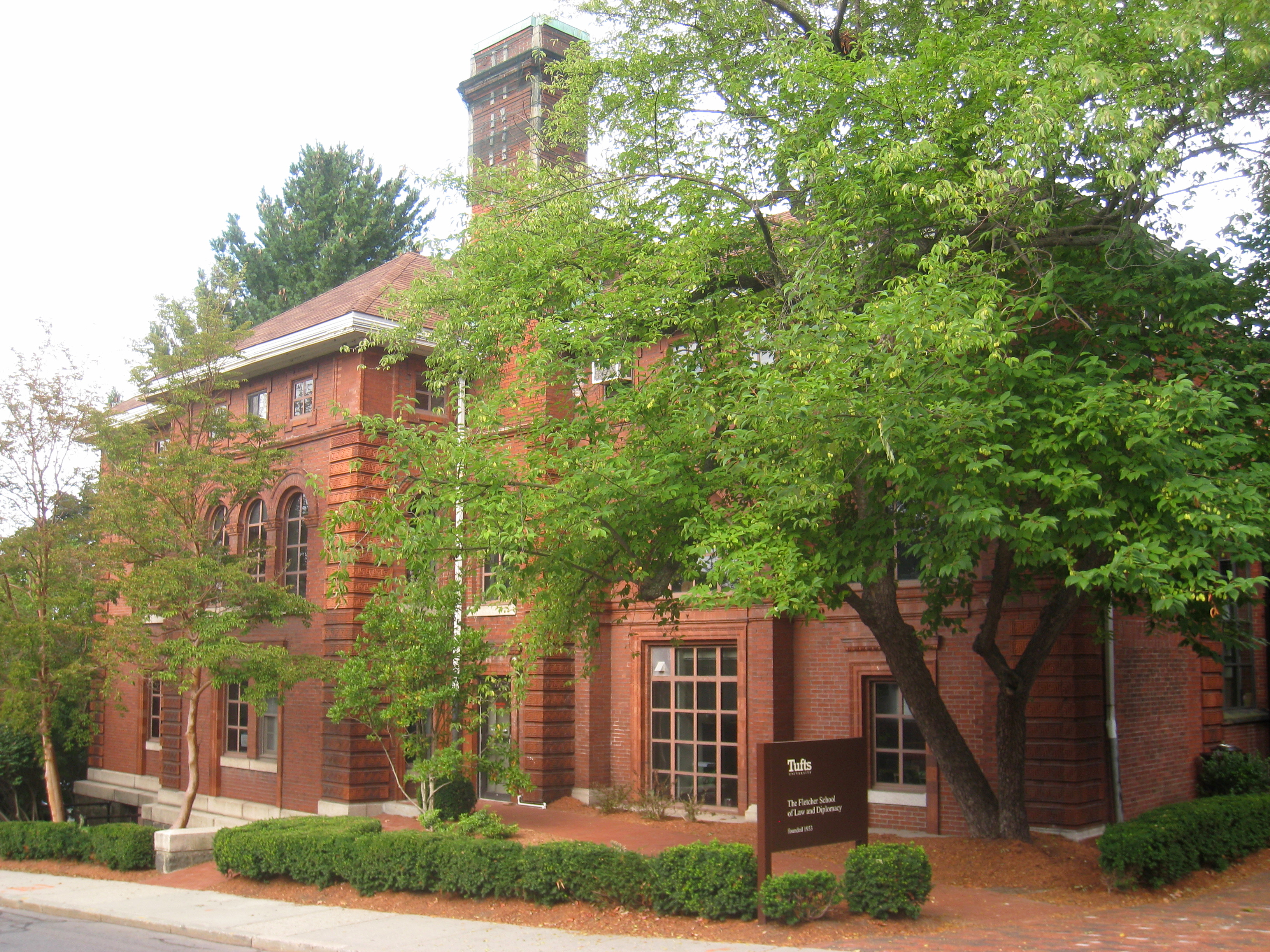 Fletcher School of Law and Diplomacy, Tufts University, Medford, Massachusetts, USA.